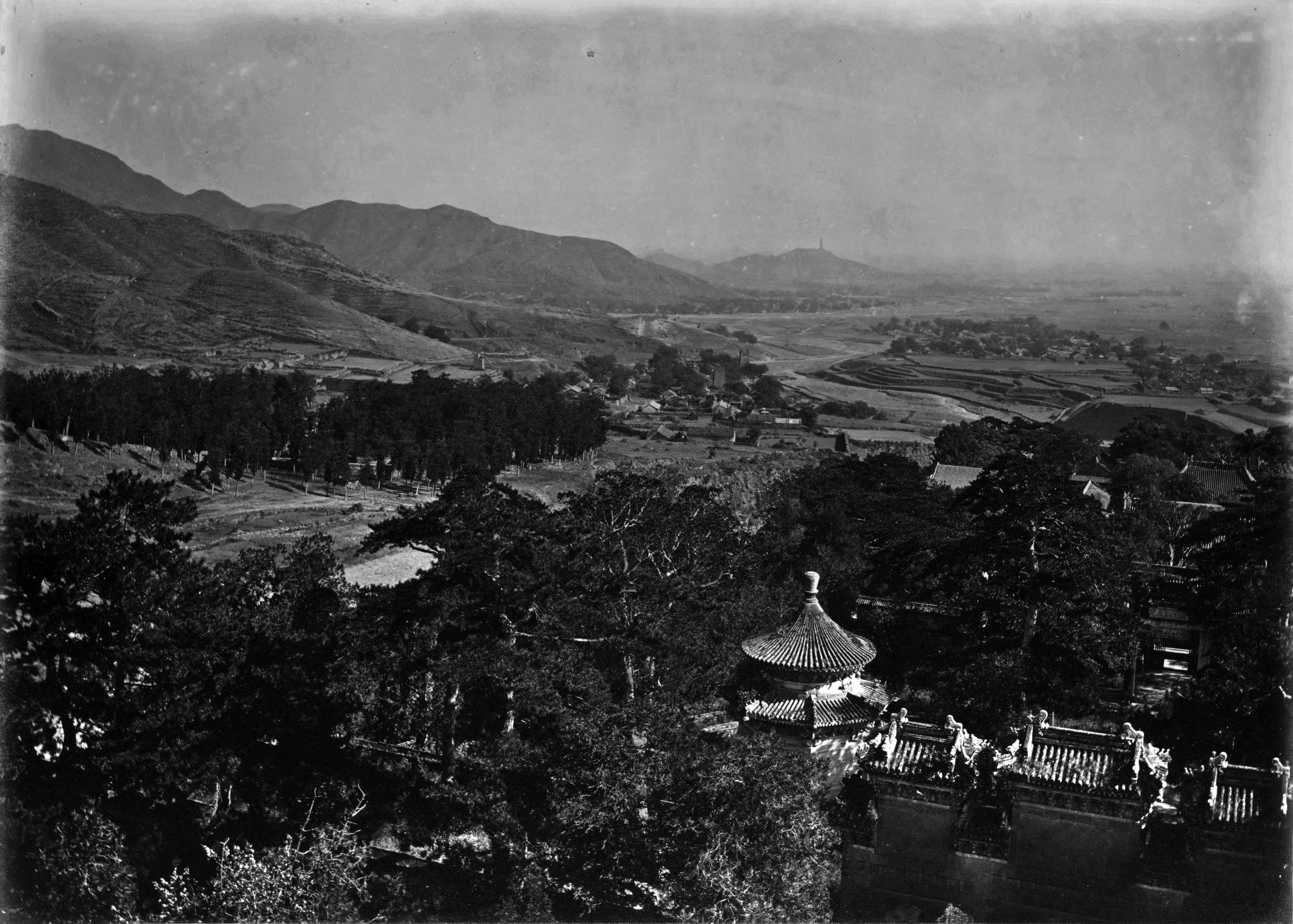 Photograph in Album of photographs of Peking and its environs.